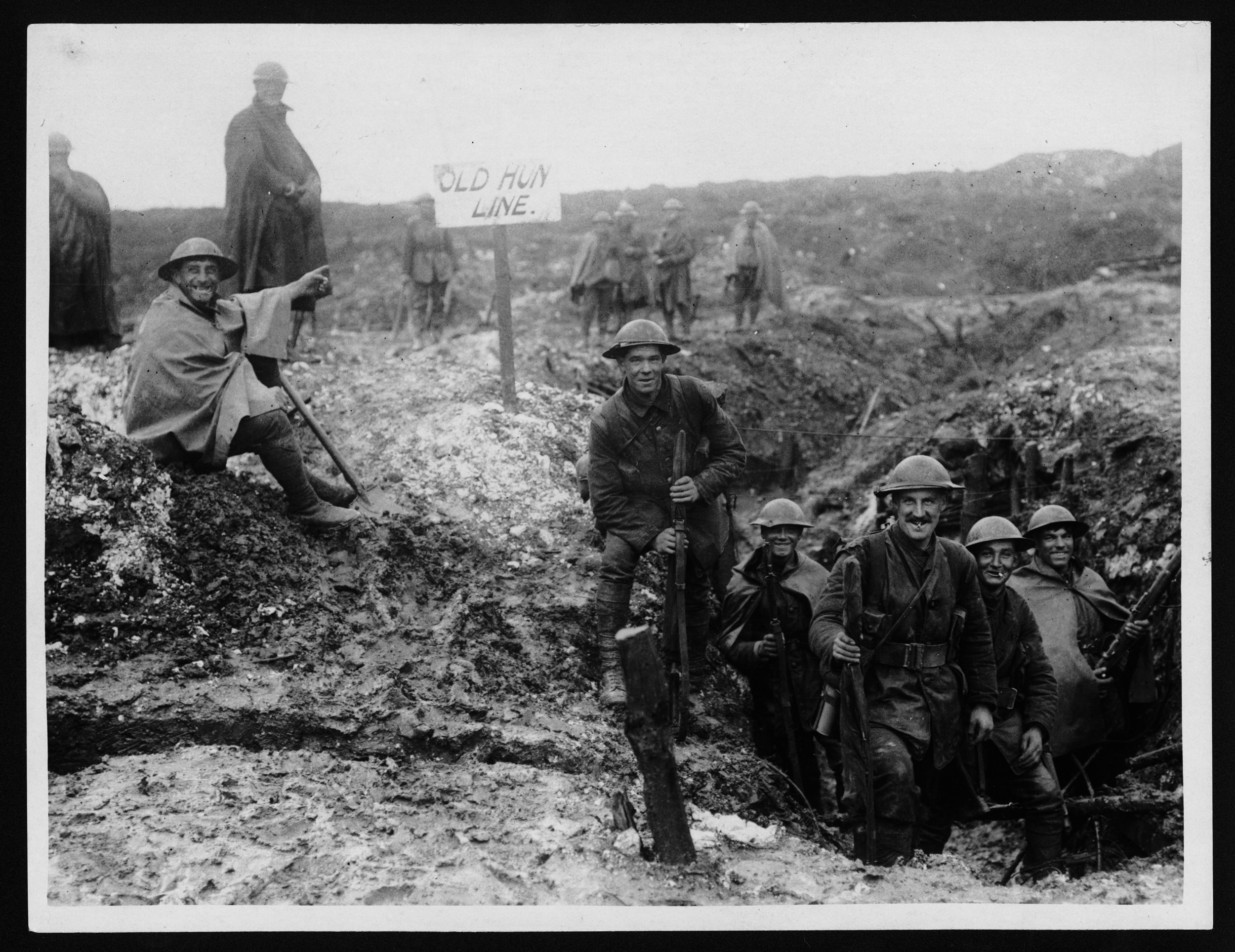 British soldiers at the old German Front Line, during World War I. In front of a mound and standing in a network of trenches are groups of soldiers, mostly smiling and laughing. They are all wearing large ponchos and the ground is very muddy. One soldier is pointing to a sign which says the 'old hun line'. Tommy' is 'Tommy Atkins', a fictional hero figure representing the average British soldier. The slang British term used here for German, 'Hun', gained popular usage after Kaiser Wilhelm II urged his troops to 'behave like Huns' to win the war.